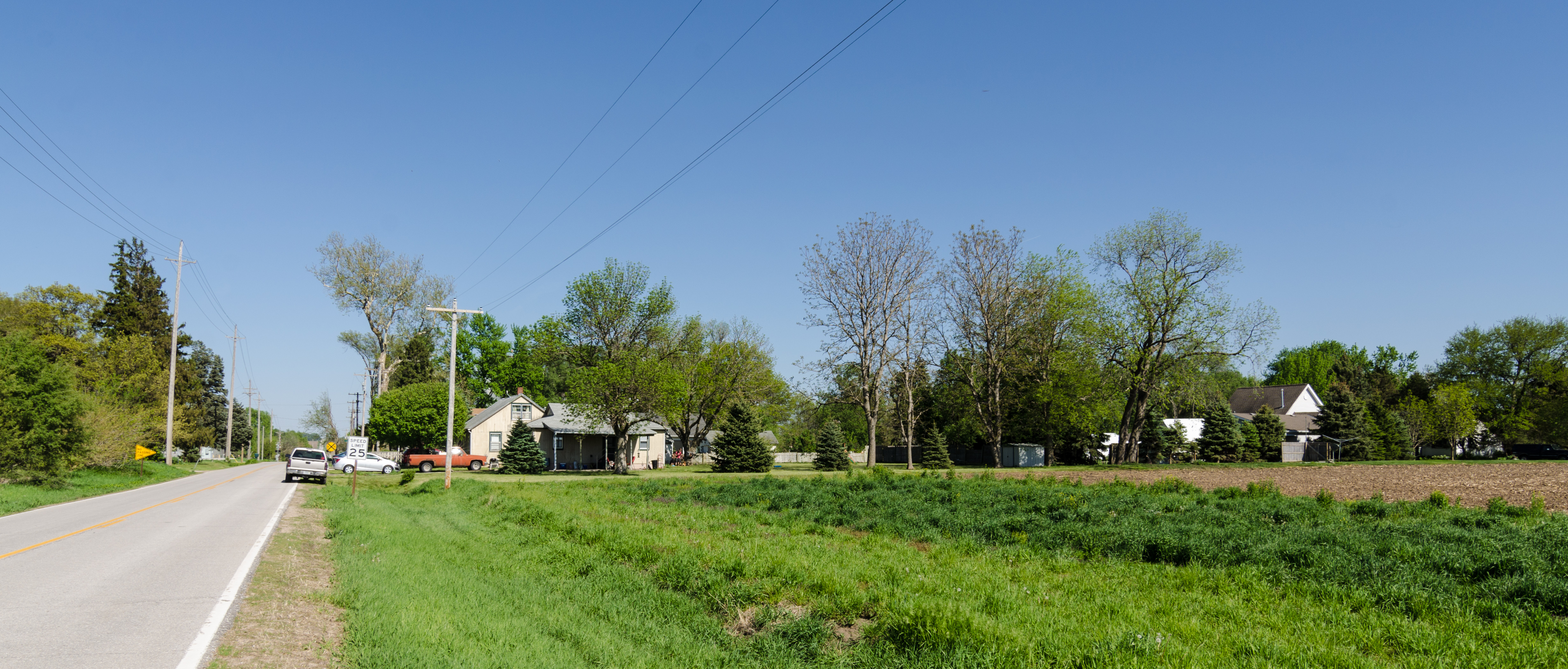 Eastbound Mynard Road